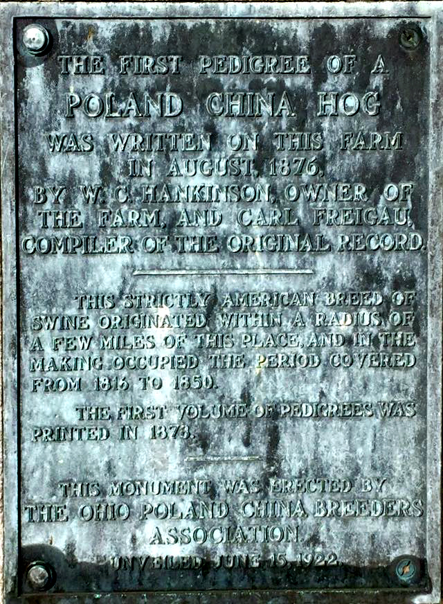 The bronze plaque from the Poland China hog monument in Blue Ball, OH, erected in 1922. The patina is quite heavy.